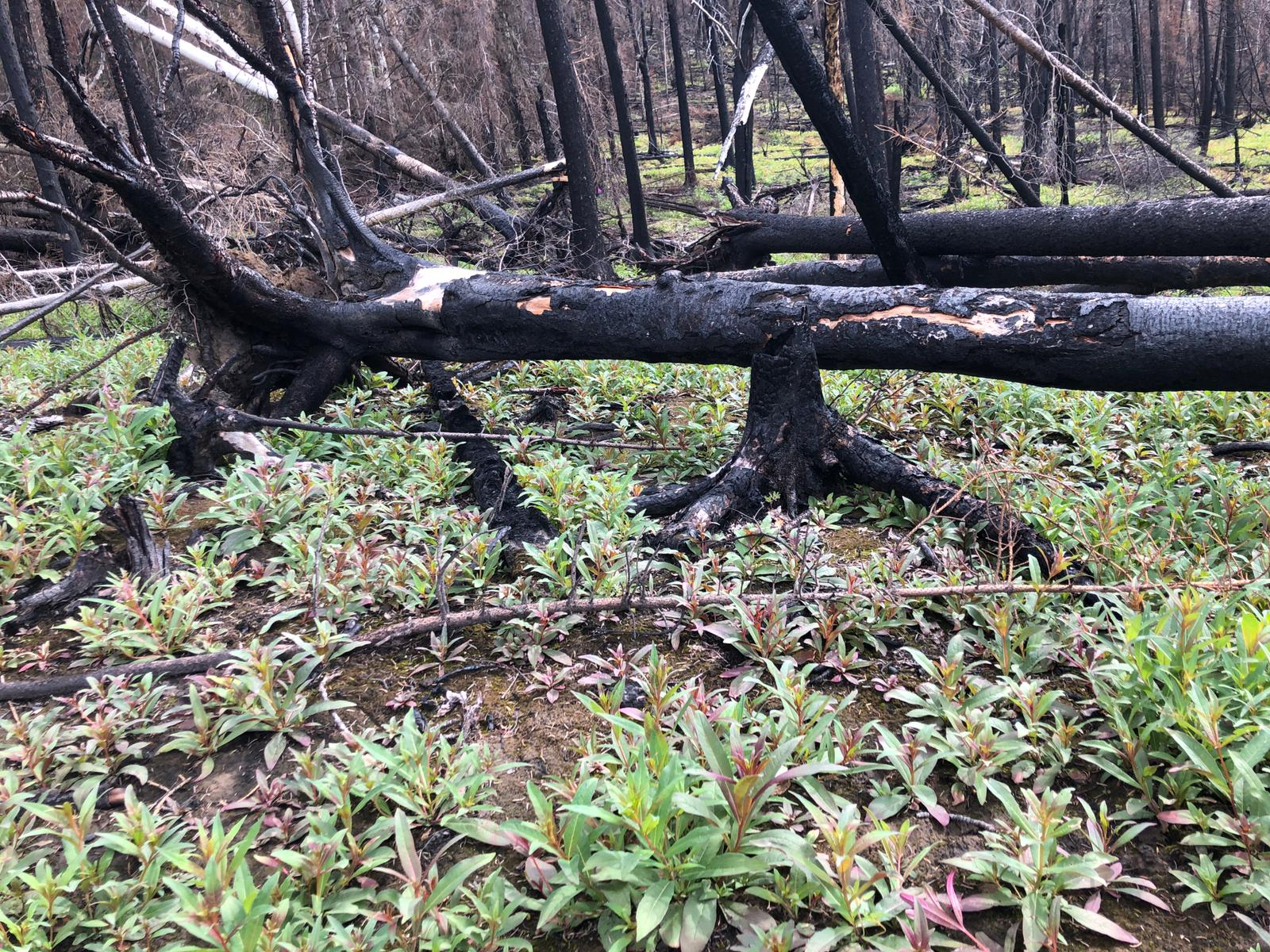 Firewood dominates the forest floor a year after the Swan Lake fire. Near Cooper Landing, Alaska.